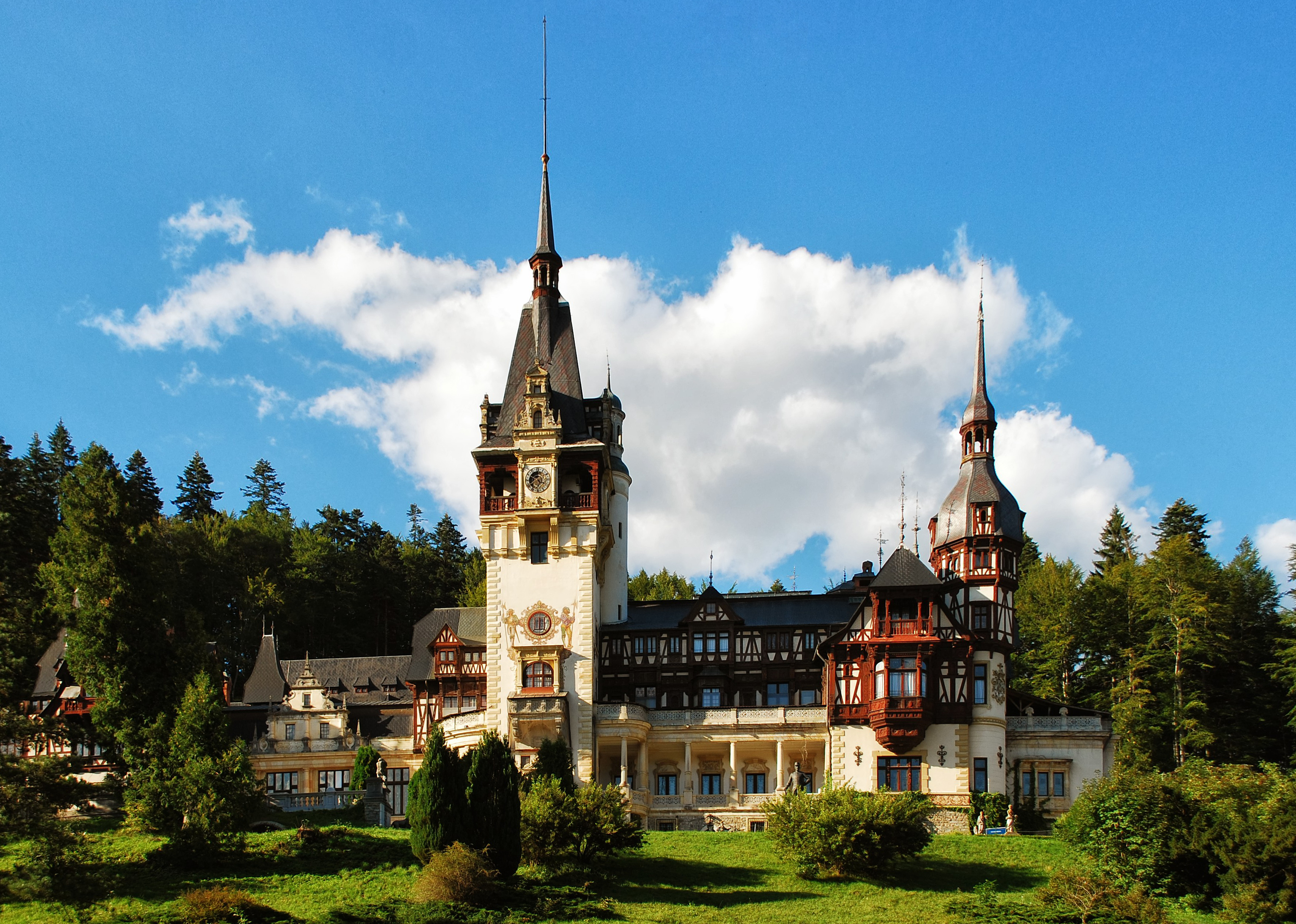 Peleș Castle, Sinaia, Prahova County, Romania 01